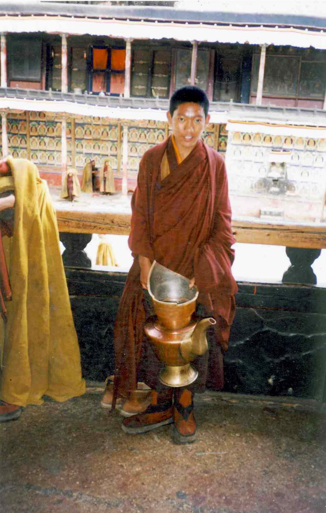 Novice monk with teapot